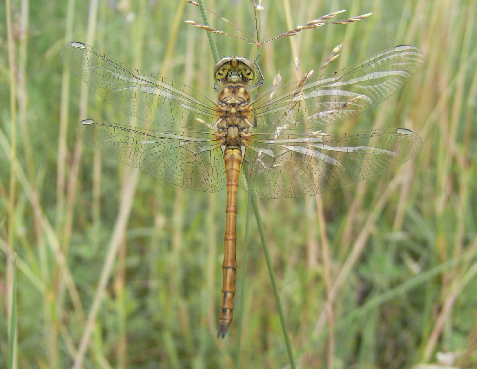 Male Vagrant Darter (Sympetrum vulgatum) near Hamburg, Germany.